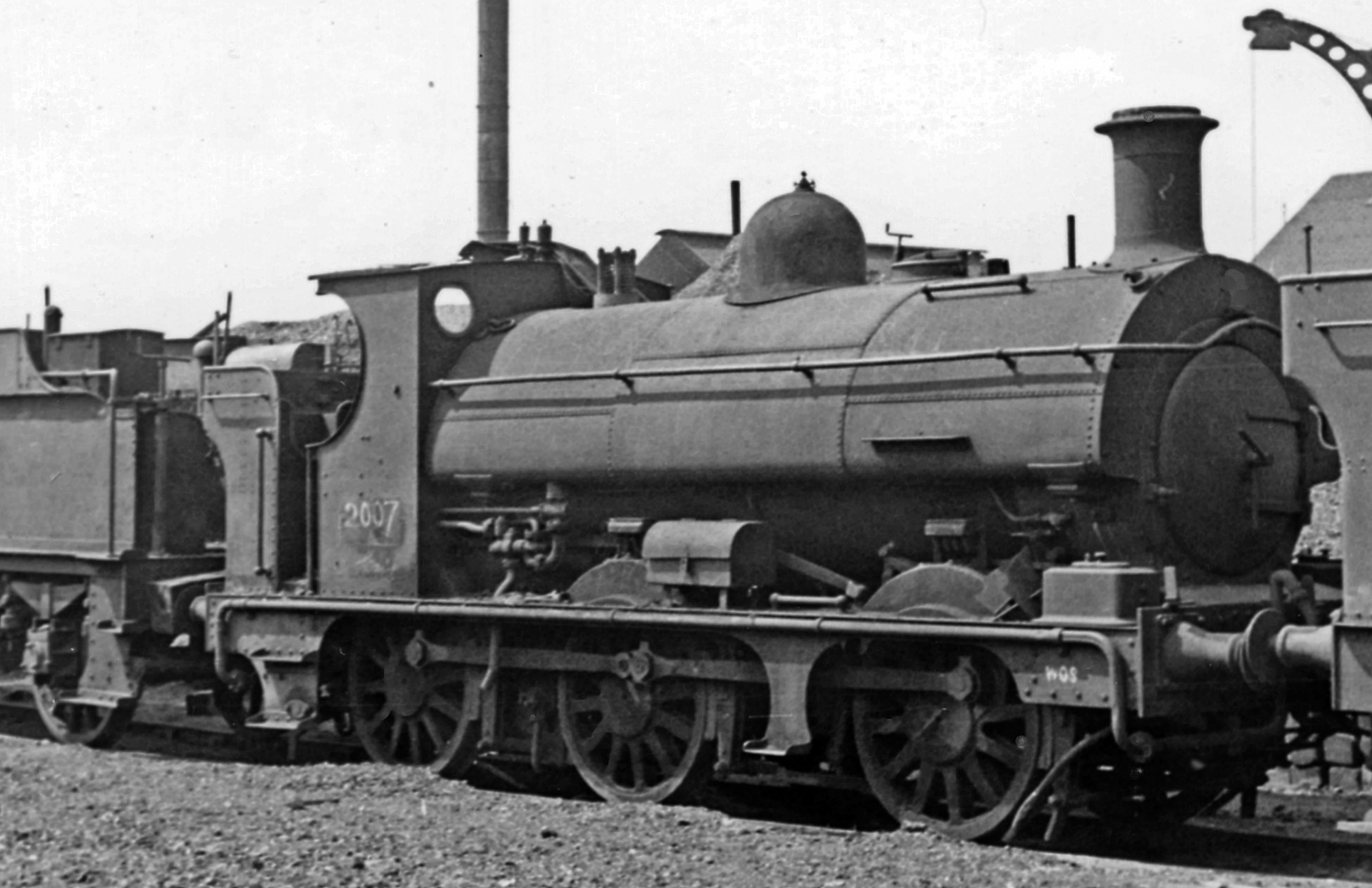 Ancient GW Saddle Tank on the 'Dump' at Swindon Works. One of the numerous withdrawn locomotives awaiting scrap at Swindon Works in June 1950 was this survivor of the '850' standard class of 0-6-0T still with its original saddle-tank - but missing its number-plate. No. 2007 was built at Wolverhampton Works in 10/1892 and withdrawn in 12/49.